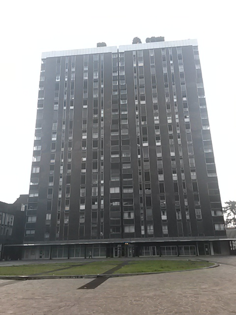 The highest building in Legnano (Milano, Italy), it is located in the town center, in Via Giovanni Giolitti in front of Largo Serpio square. (view from Piazza Mocchetti)